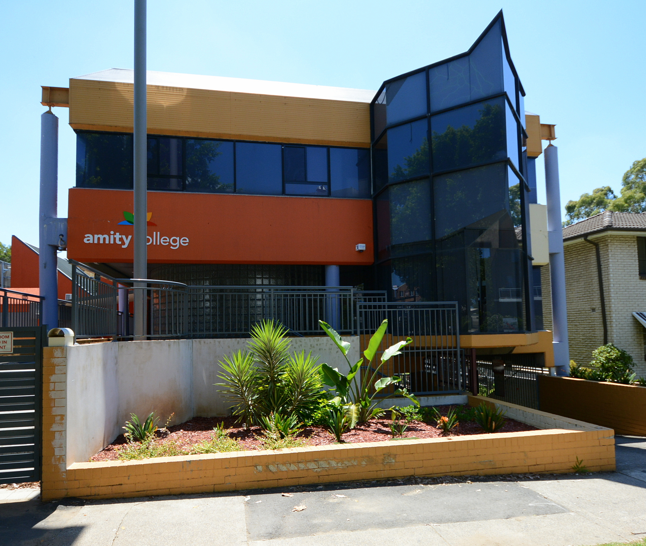 Amity College, Auburn, Sydney